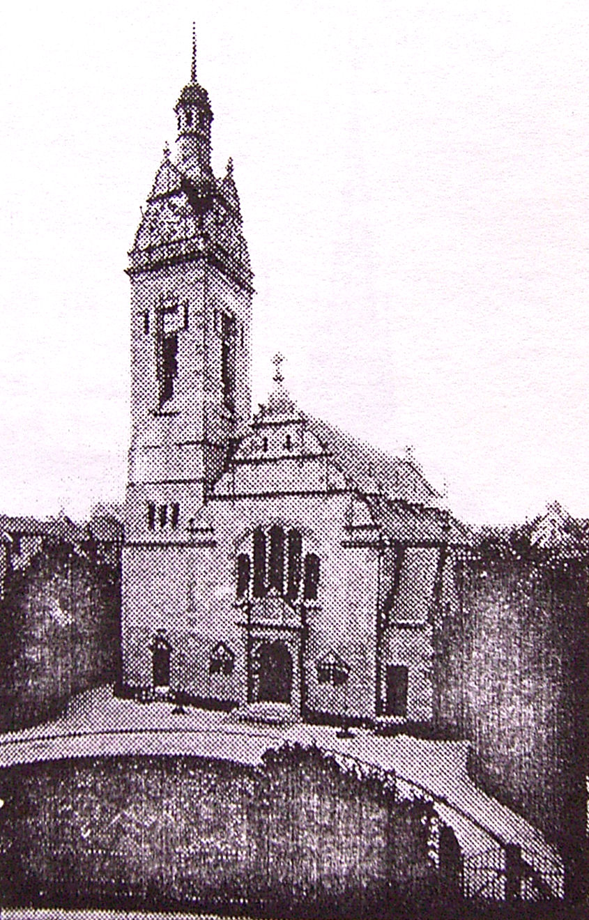 The Lutherkirche in Bonn-Poppelsdorf ca. 1905, designed by the Berlin architects Johannes Vollmer and Heinrich Jassoy, built 1903, without war damage